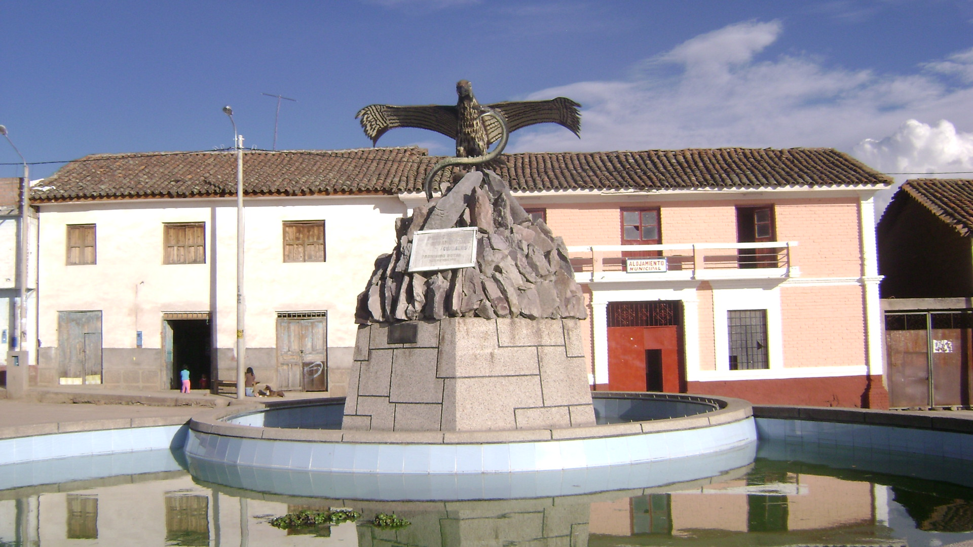 Halcón Huamán y la Serpiente Amaru